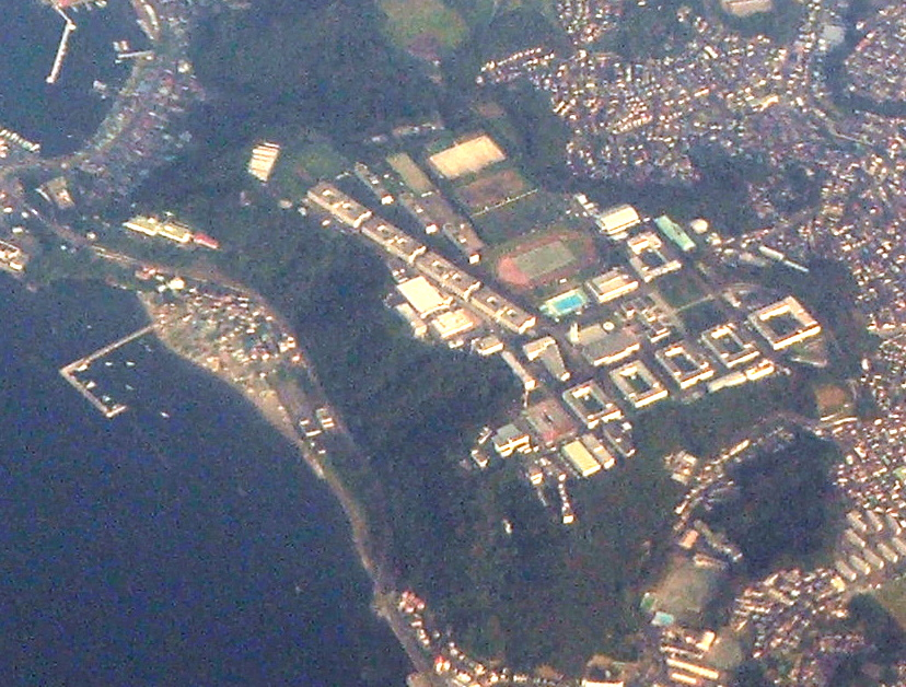 Aerial view of National Defense Academy of Japan. Extracted from File:Obaradai Yokosuka aerial.jpg